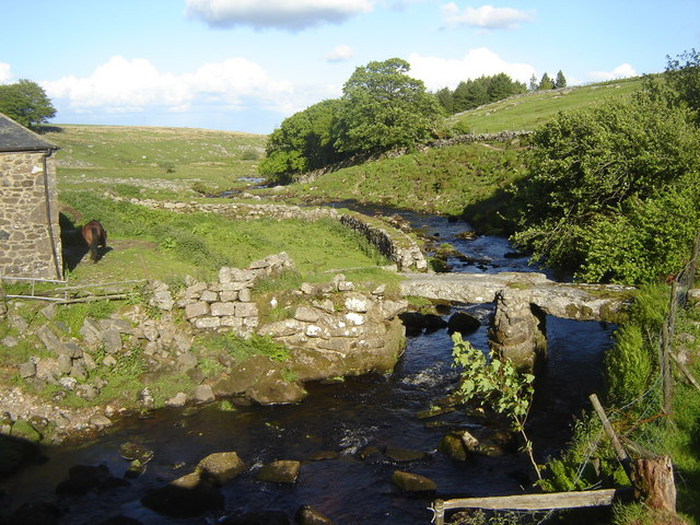 Blackbrook River and Clapper Bridge Taken from Oakery Bridge. The clapper bridge was a total surprise - it isn't indicated on the map!